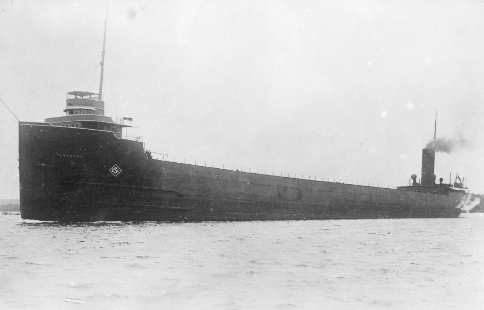 The steamer Emperor upbound in Little Rapids Cut